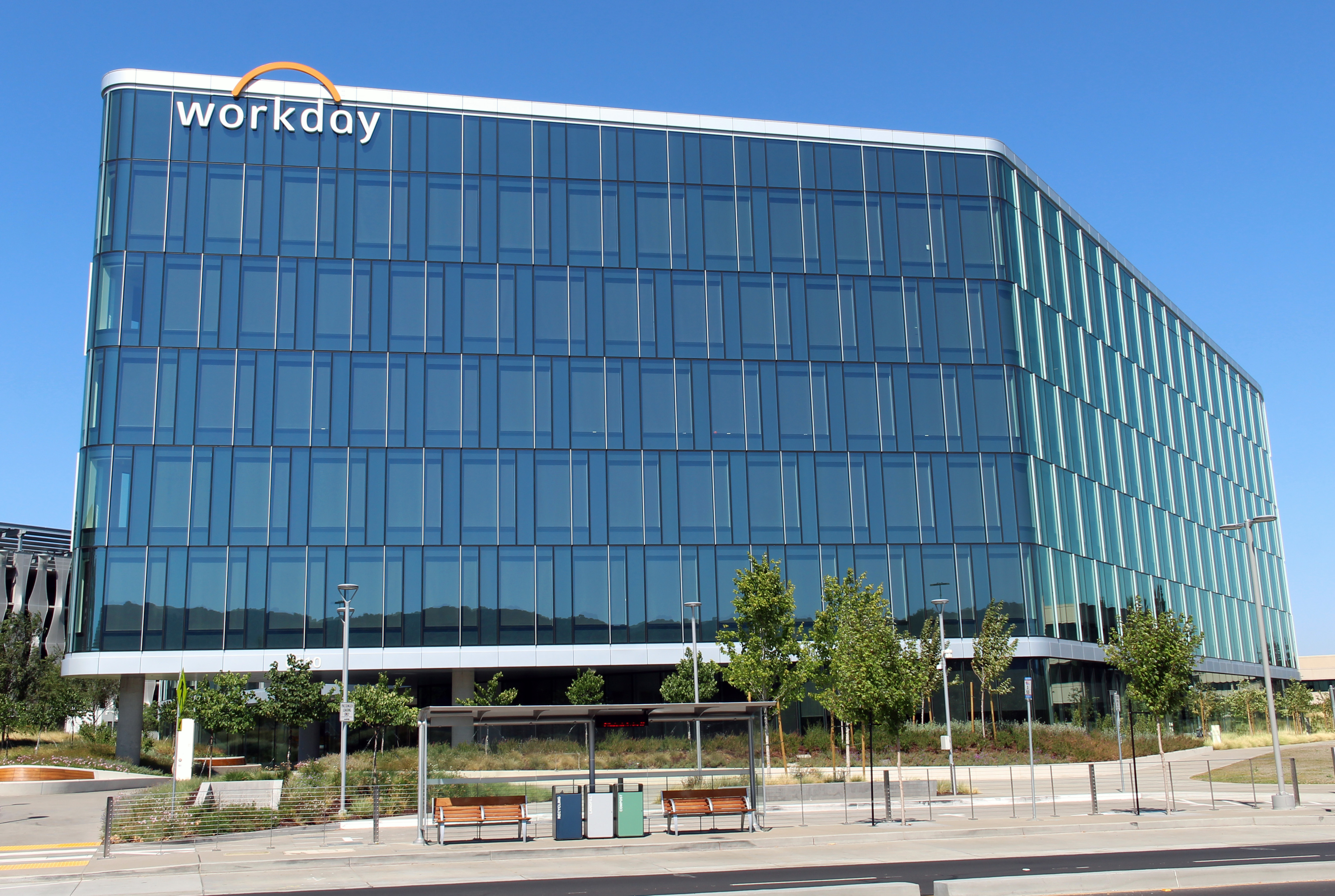 Workday, Inc. headquarters in Pleasanton, California. Photographed by user Coolcaesar on August 24, 2019.